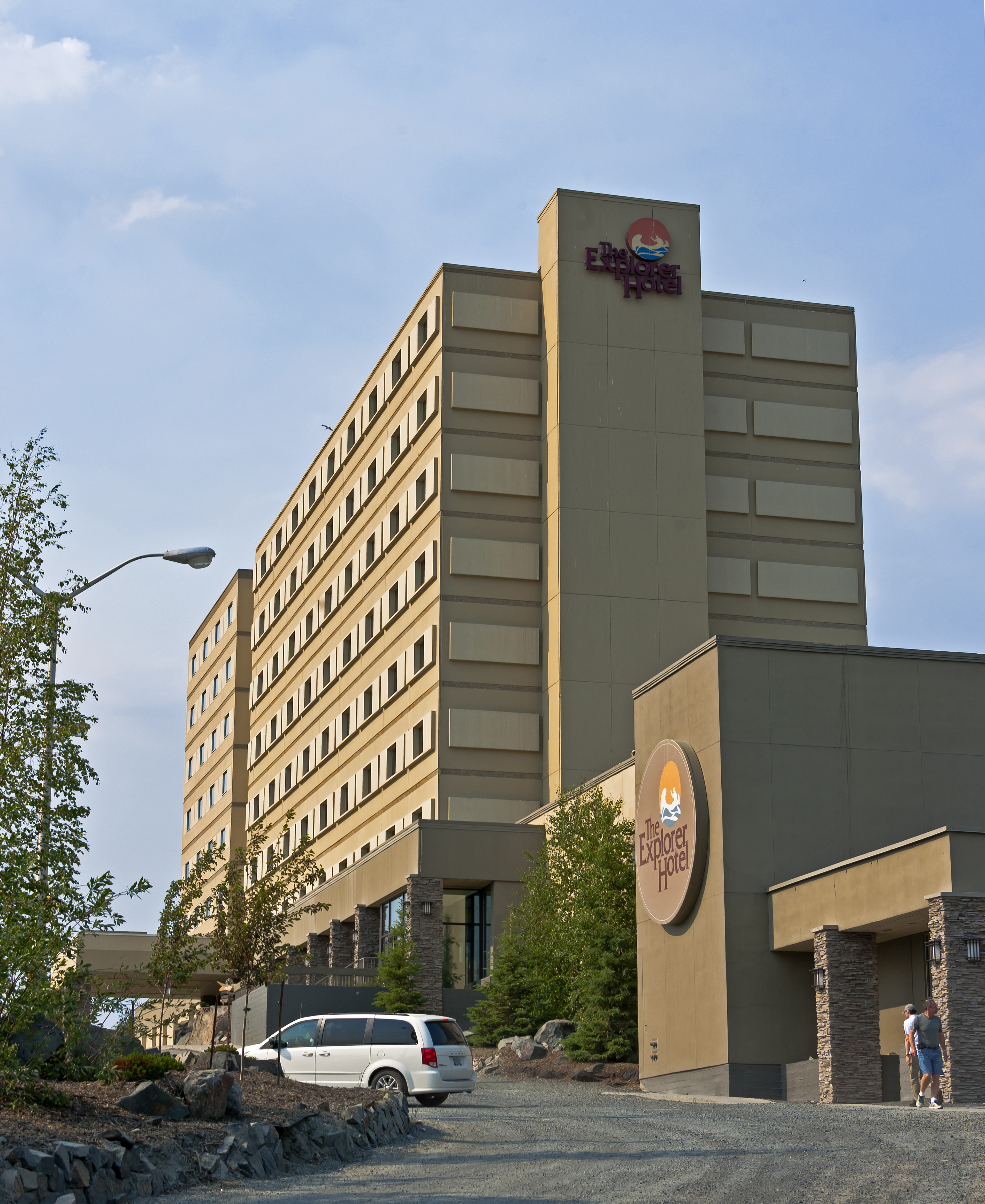 Explorer Hotel, Yellowknife, NT, Canada, looking up its southern driveway.